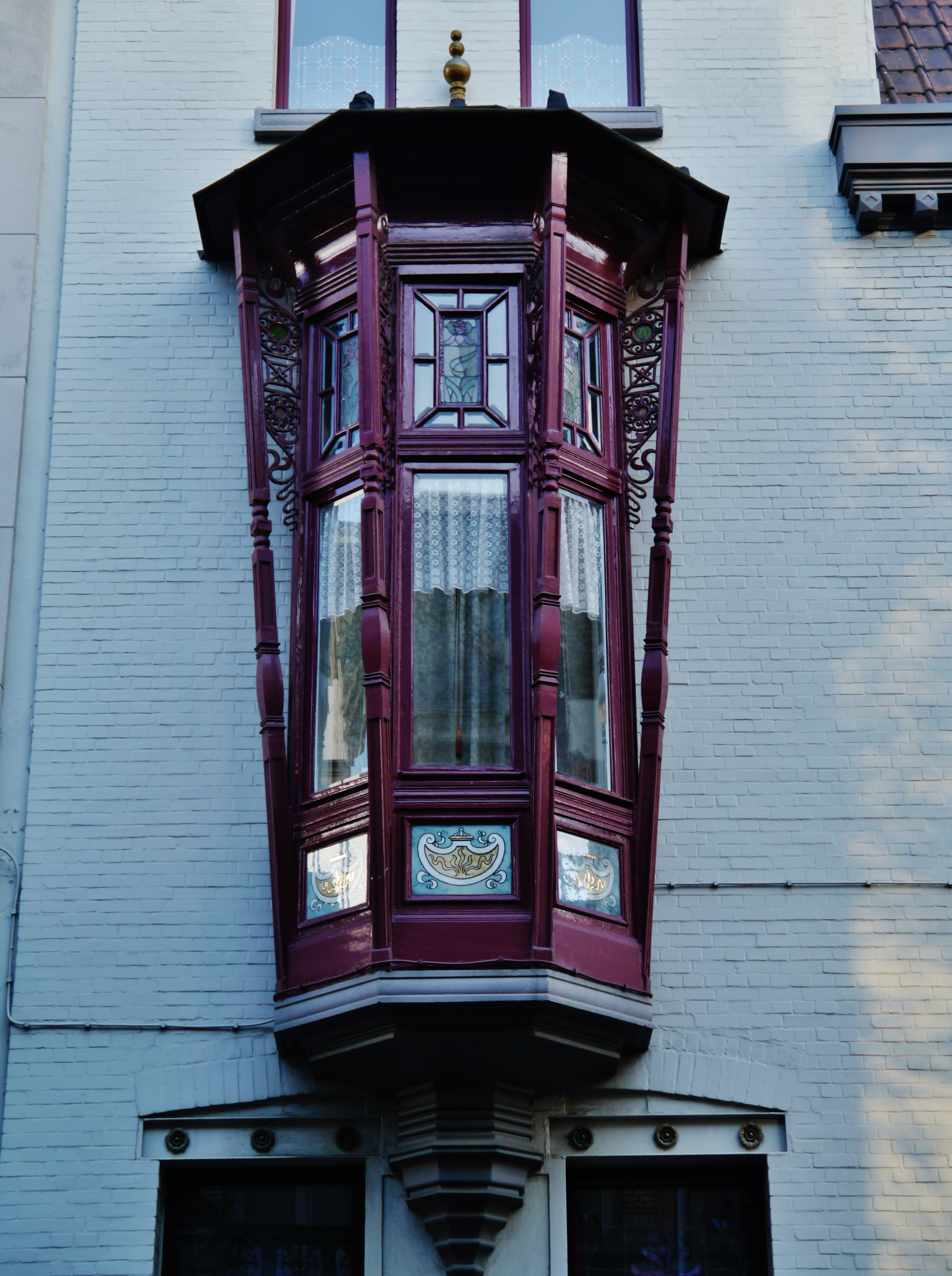 Art Nouveau Architecture in Transvaal Street, Antwerp, Province of Antwerp, Flanders, Belgium